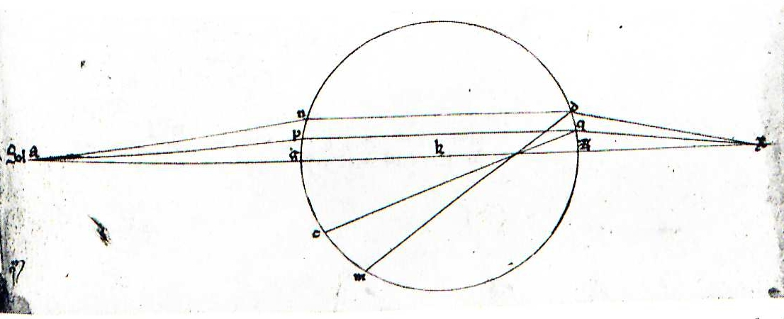 Theodoric of Freiberg: De Iride II,30. In: Manuscript Basel F. IV.30, f. 29r.